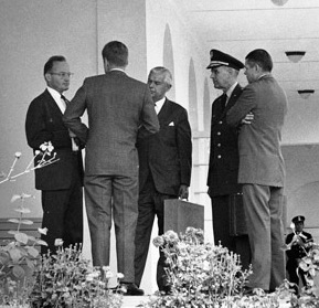 ST-A26-13-62 29 October 1962 President Kennedy and advisors confer after EXCOMM Meeting of 29 October, 1962. L-R: Special Assistant McGeorge Bundy, President Kennedy, Assistant Secretary of Defense Paul Nitze, Chairman of the Joint Chiefs of Staff General Maxwell Taylor, Secretary of Defense Robert McNamara. White House, West Wing Colonnade.